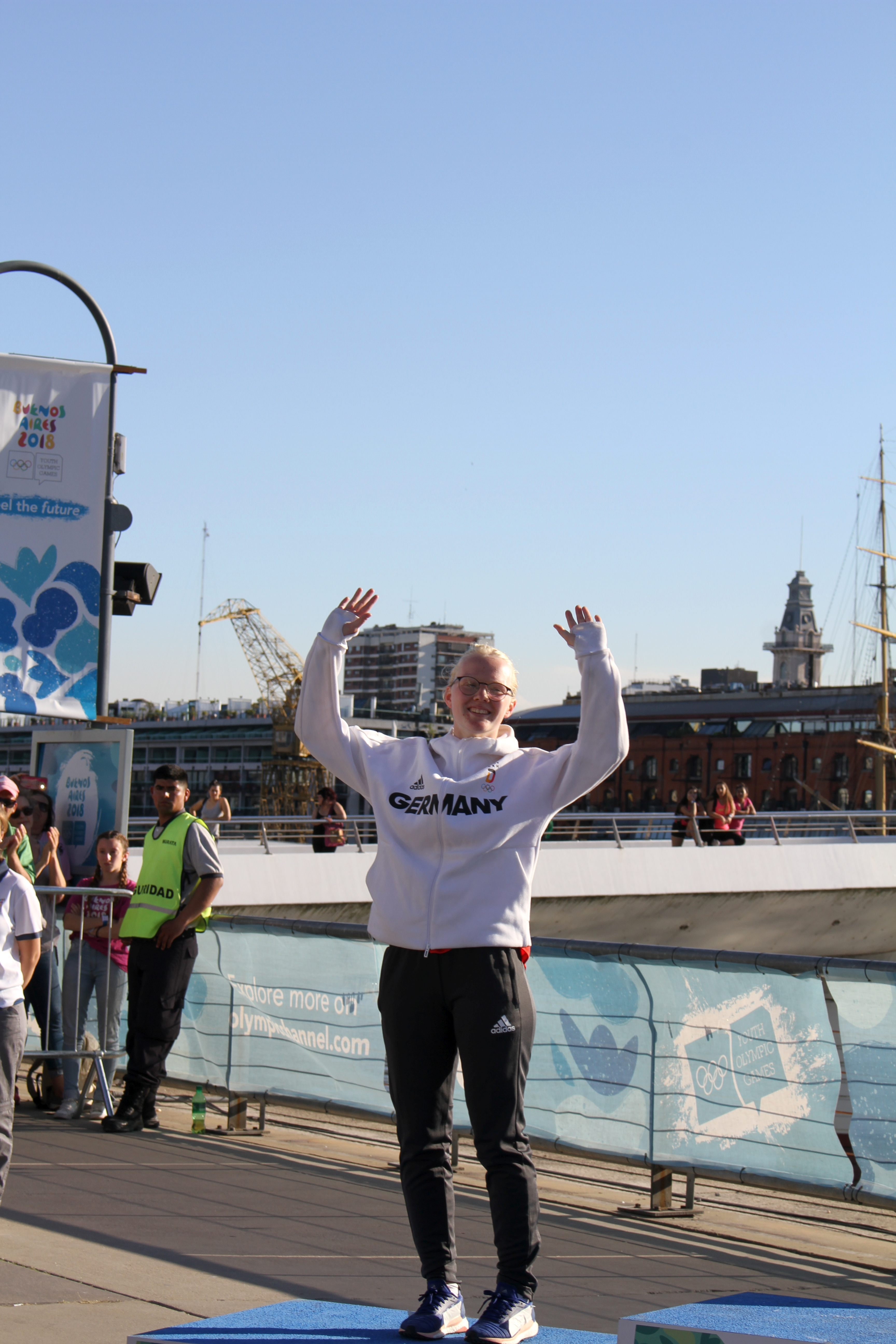 Canoeing at the 2018 Summer Youth Olympics at 16 October 2018 – Girls' C1 slalom Gold Medal Race: Doriane Delassus (France, gold) - Zola Lewandowski (Germany, silver) - Emanuela Luknárová (Slovakia, bronze)